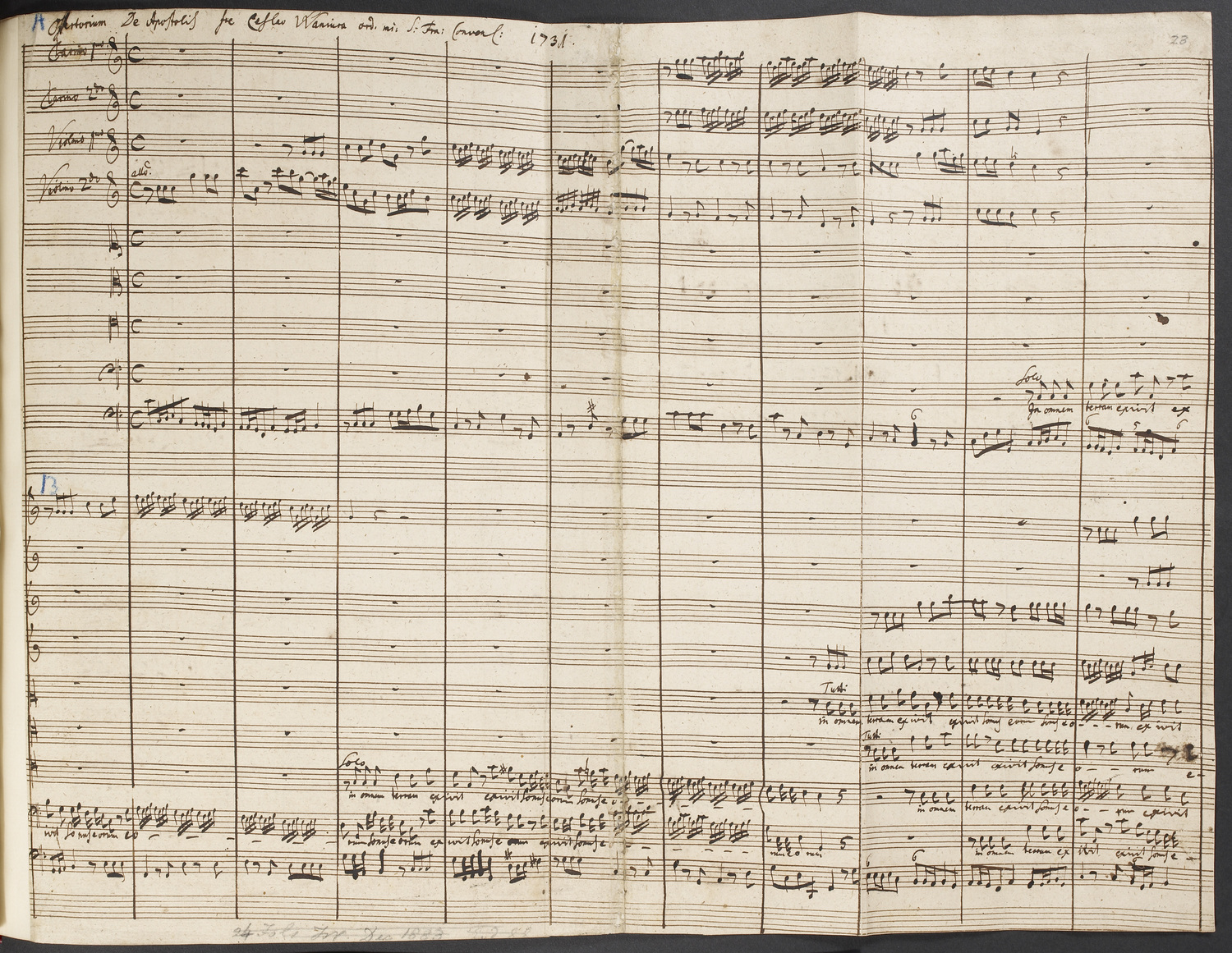 In omnem terram. Possibly in the composer's hand.